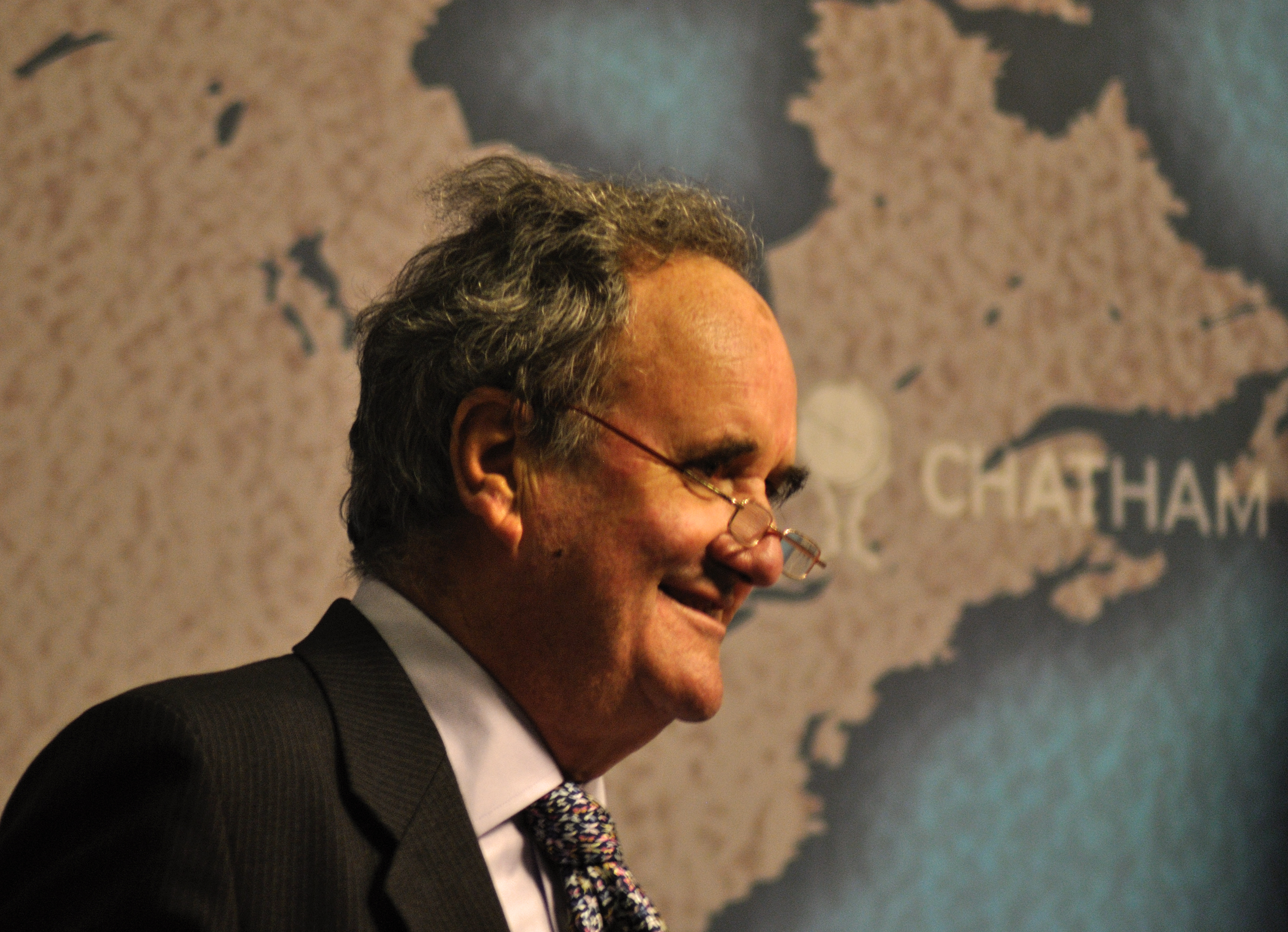 Mark Tully at a conference: India's Rise and the Obstacles Ahead